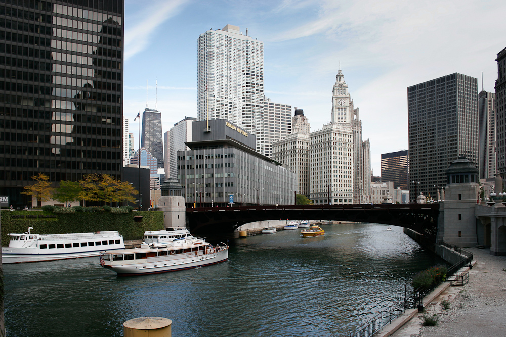 Chicago River